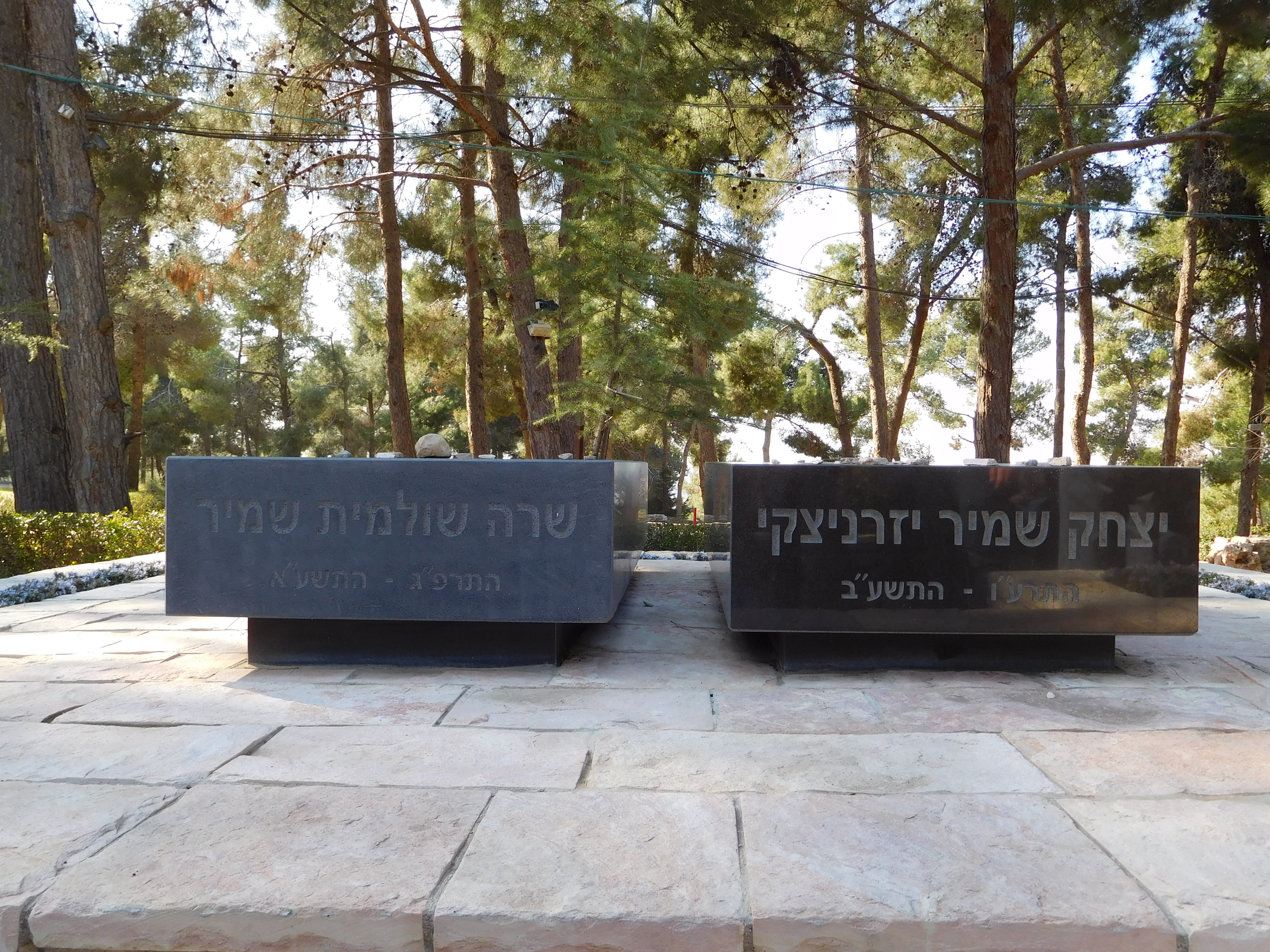 Yitzhak Shamir's grave